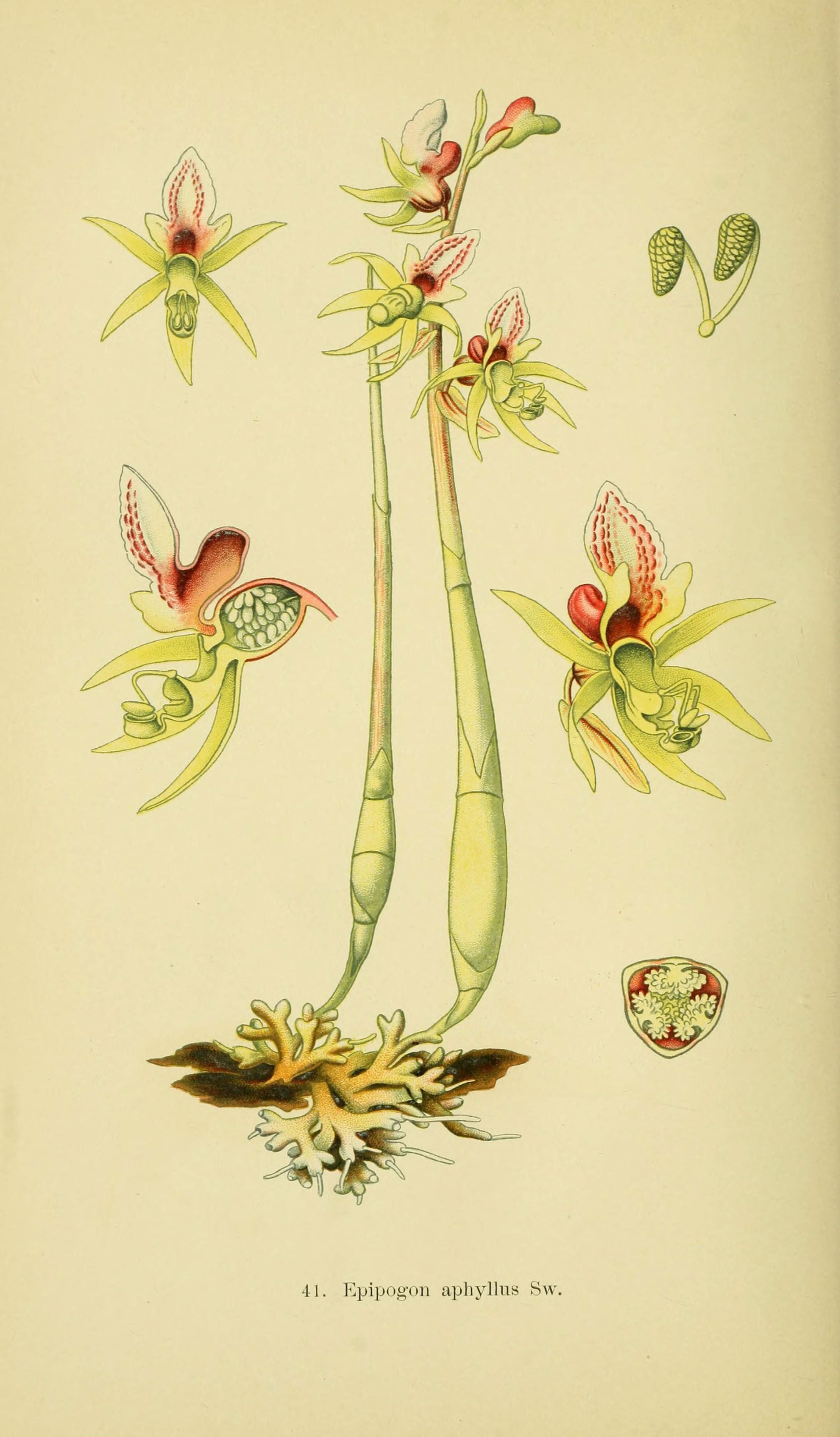 41. EpipogoD aphyllus Sw.